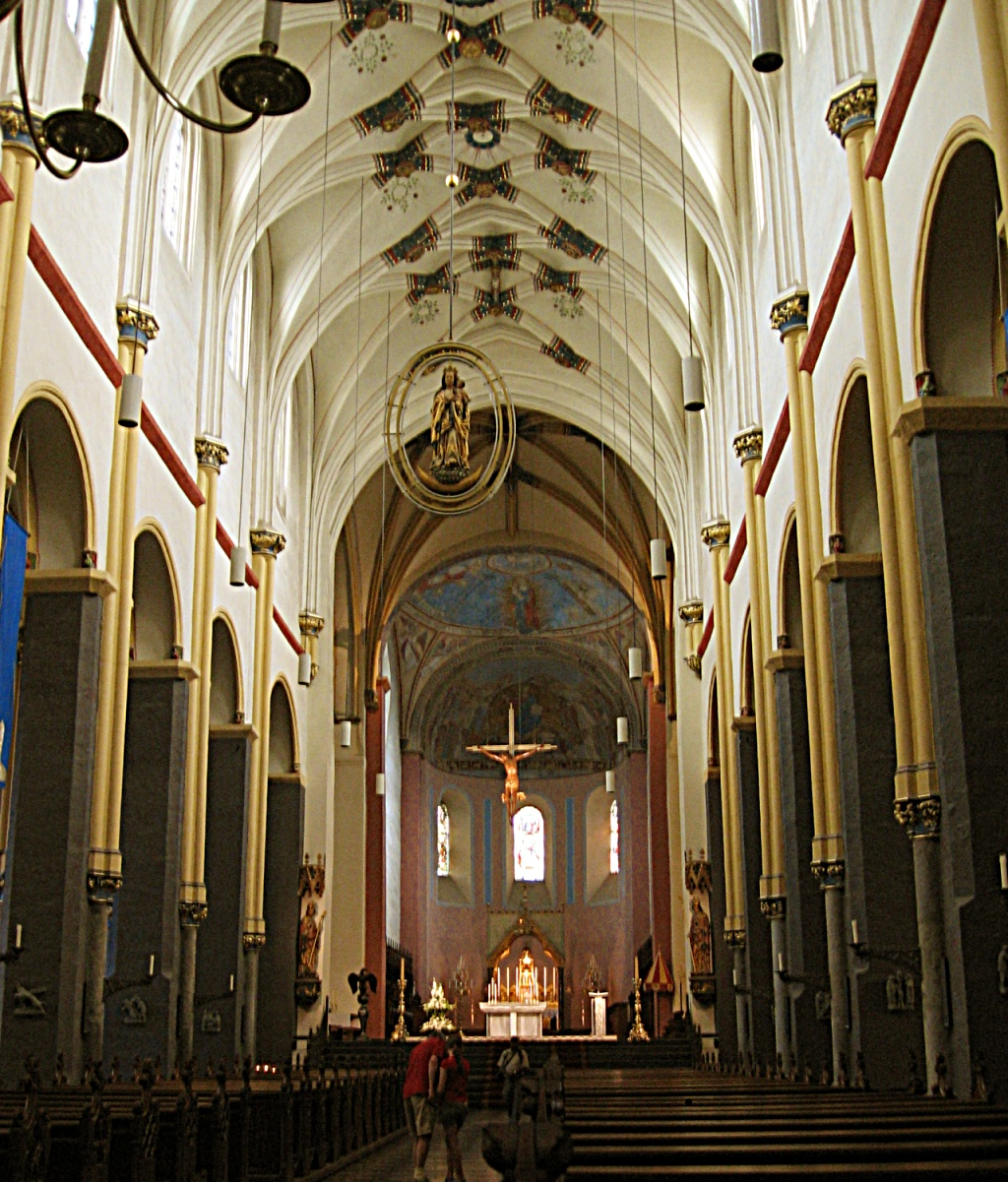 Basilica of St. Servatius at Maastricht